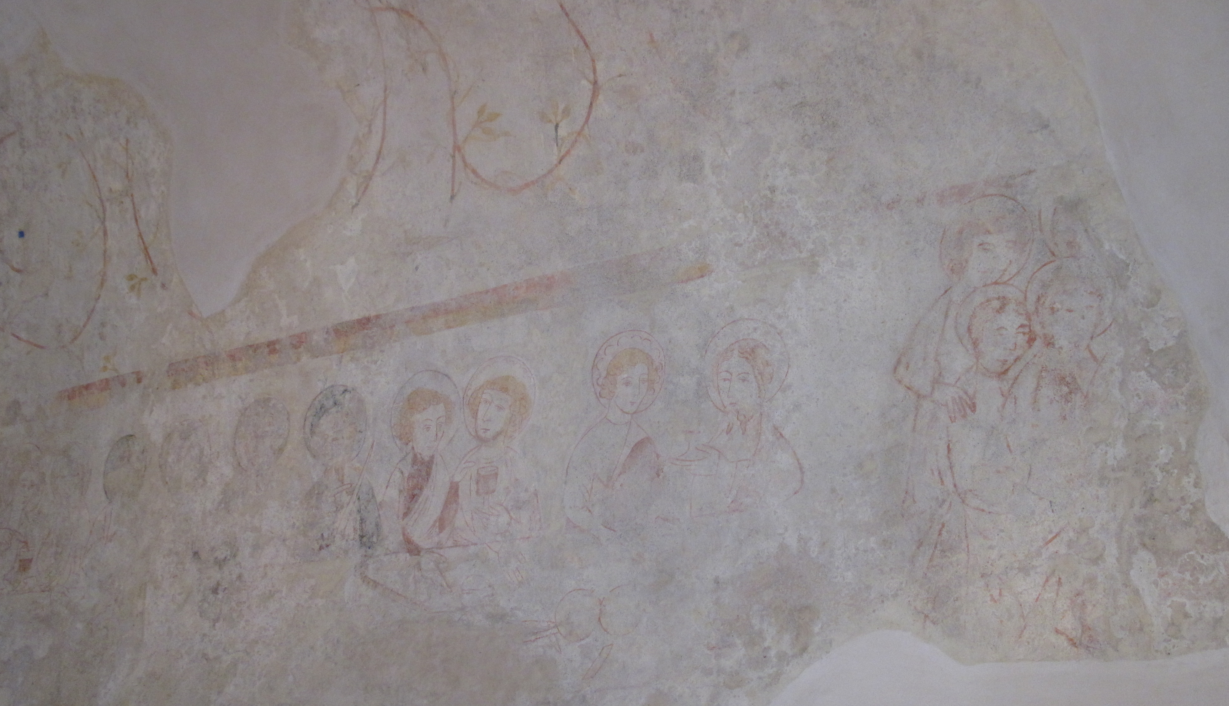 Saint Saviour, Guernsey: Chapel of St. Apolline, 14th century painting of the Last Supper Nrf: Saint Sauveux (Guernési)